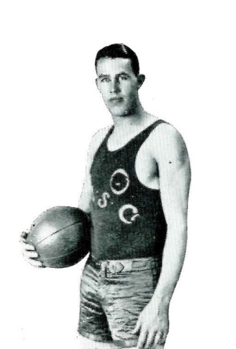 Montana State University Basketball Player Frank Ward in 1930